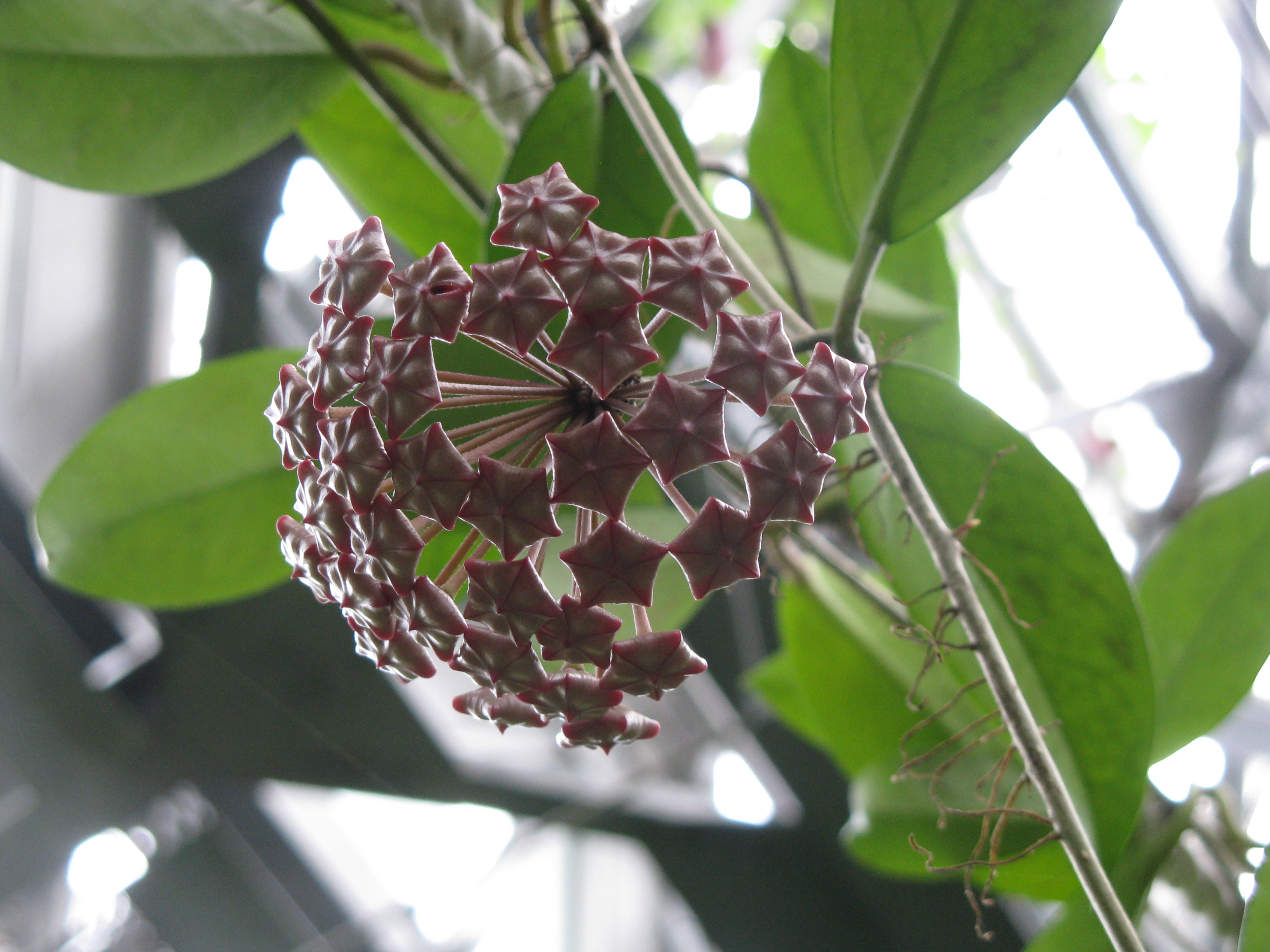 Scientific name Hoya purpureofusca Place:Osaka Prefectural Flower Garden,Osaka,Japan